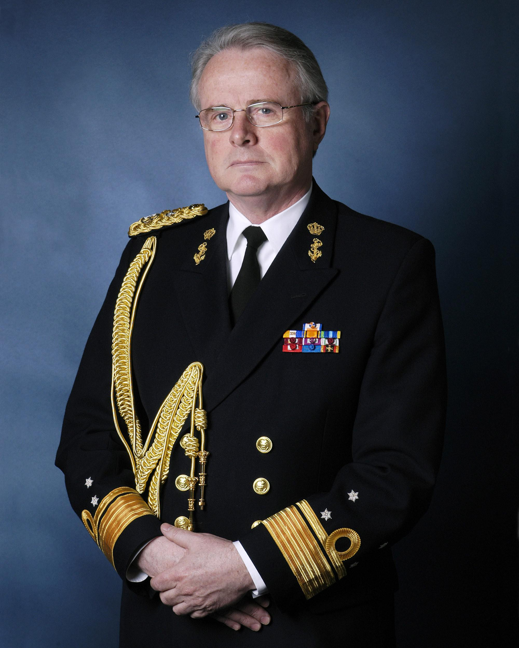 Portrait of admiral Kroon, Chief of the Netherlands Defence Staff from 1998-2004.